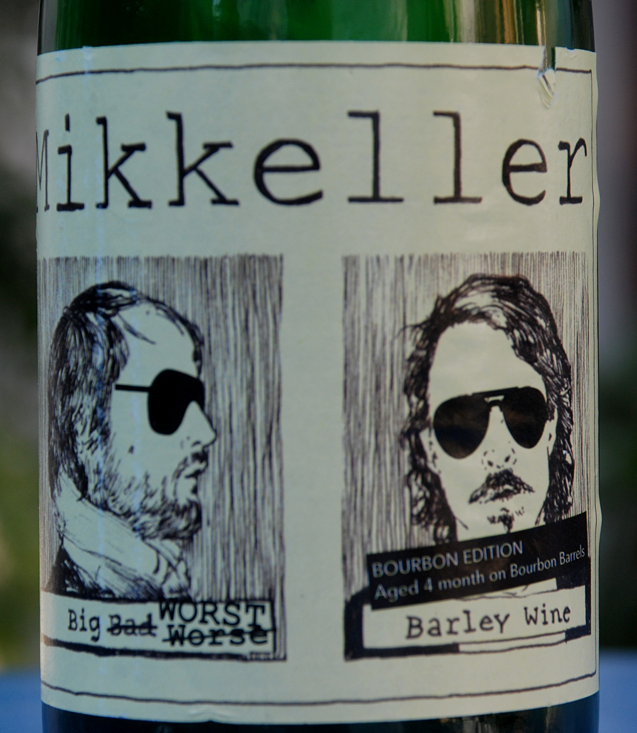 Mikkeller Big Worst Barley Wine Bourbon Edition